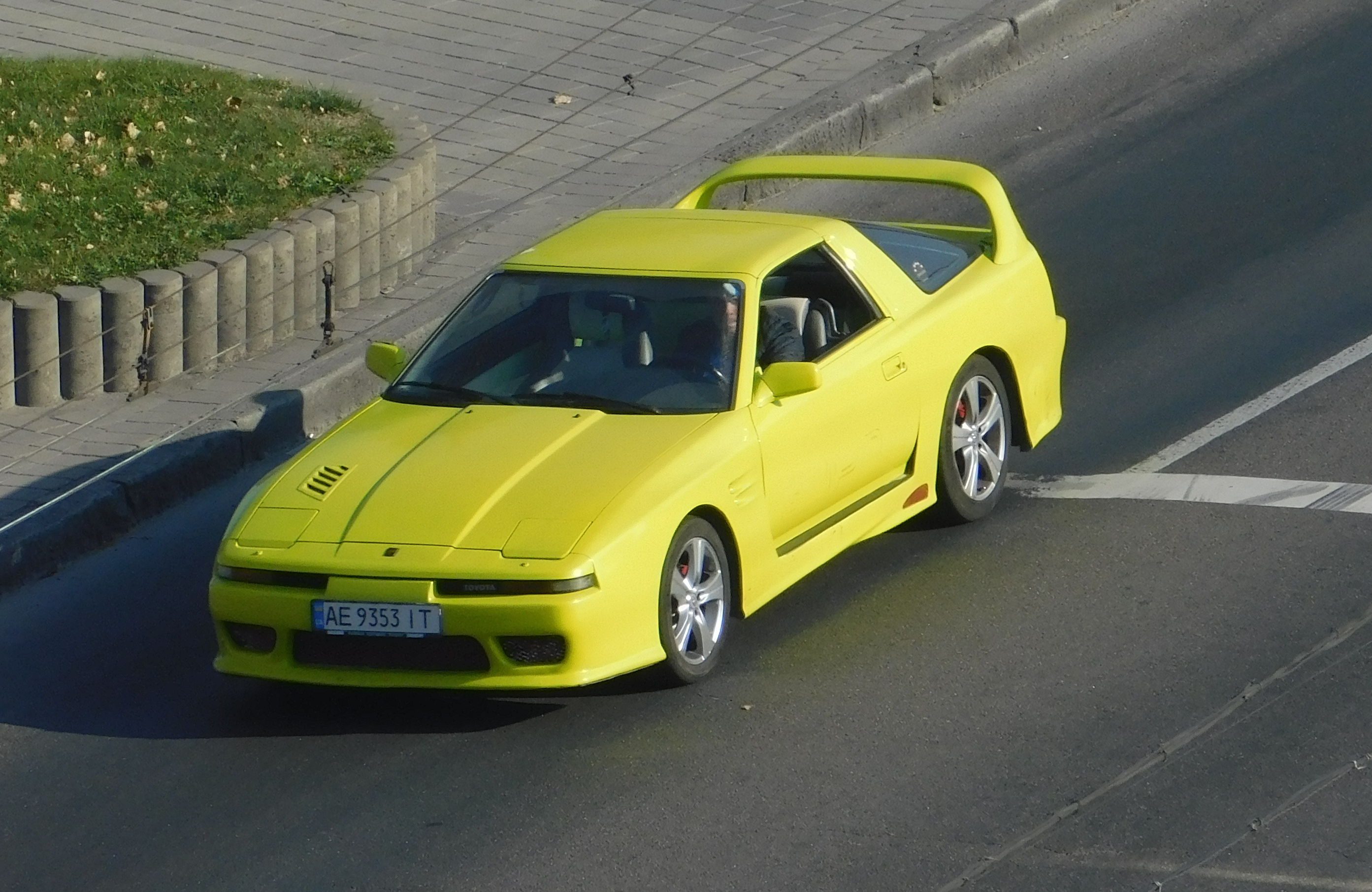 Toyota Supra 1989; Dnipro, Ukraine; 02NOV 19